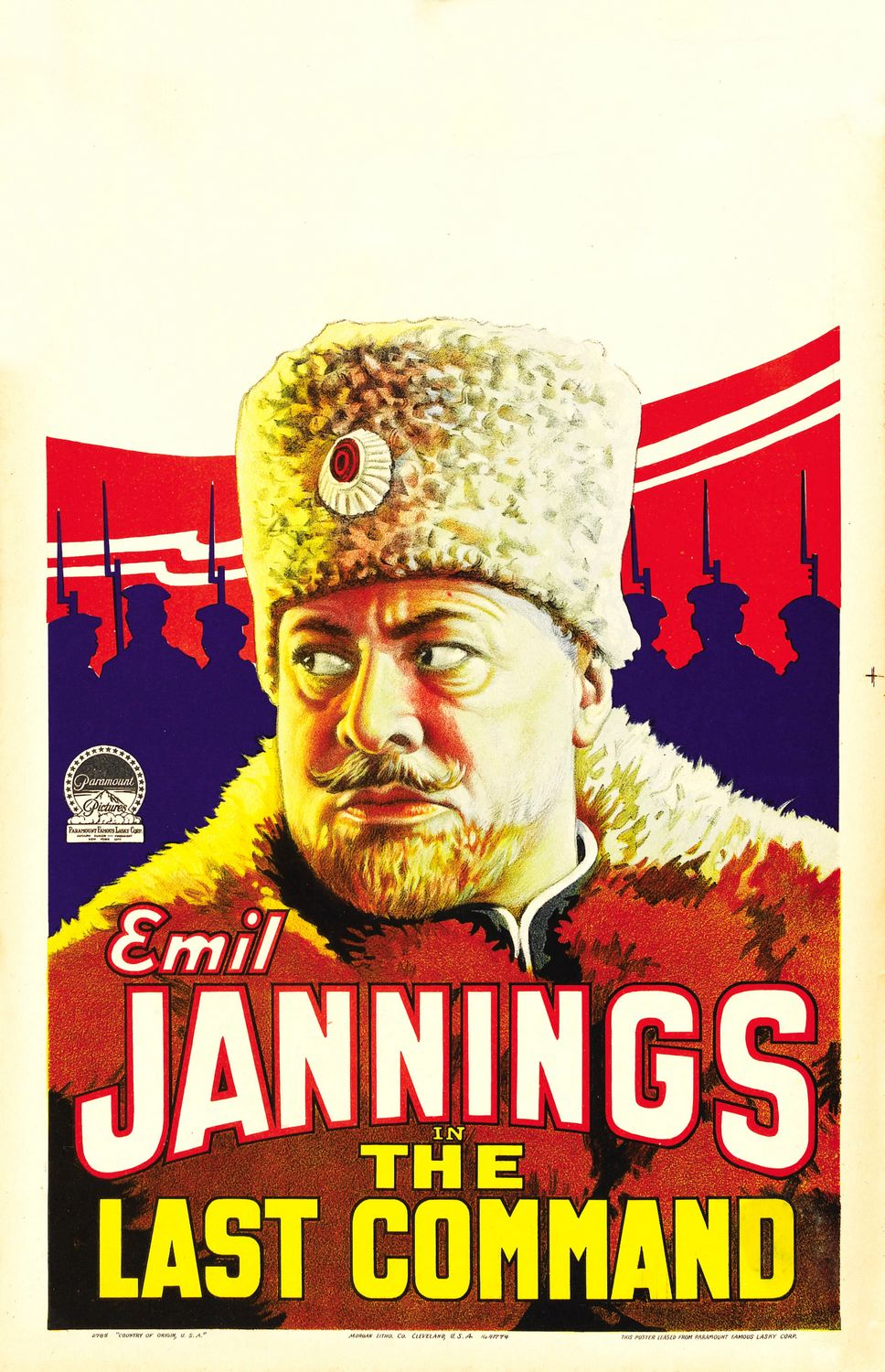 The Last Command (1928) film poster.